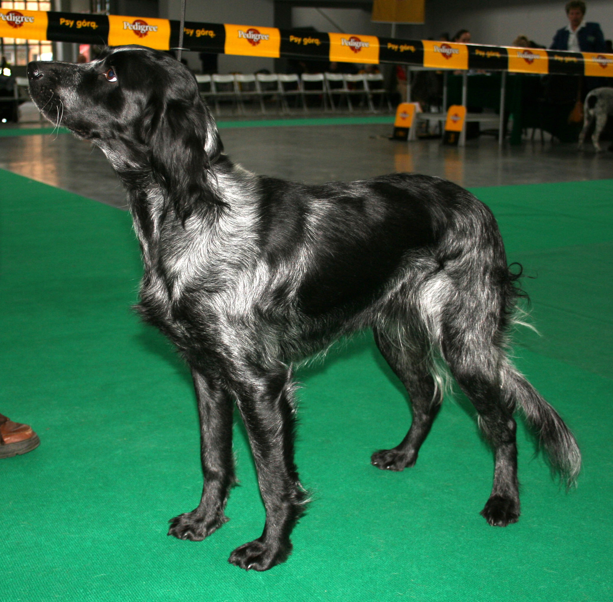 Blue Picardy Spaniel at the World Dog Show in Poznan, Poland